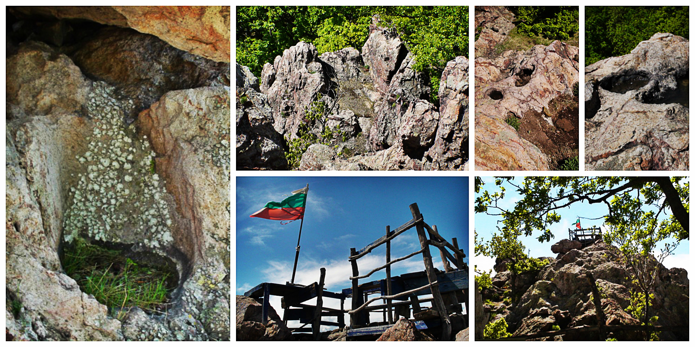 Garvanitza 02 Bryastovo Haskovo BG